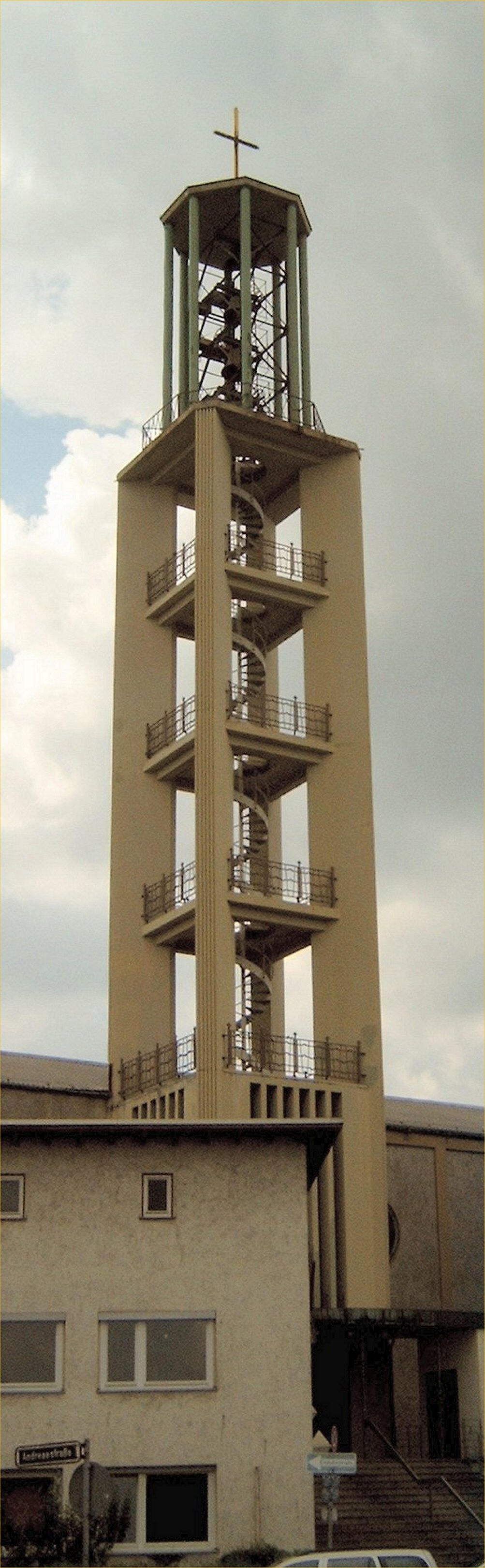 Tower of the former Heilandskirche in Frankfurt am Main-Bornheim